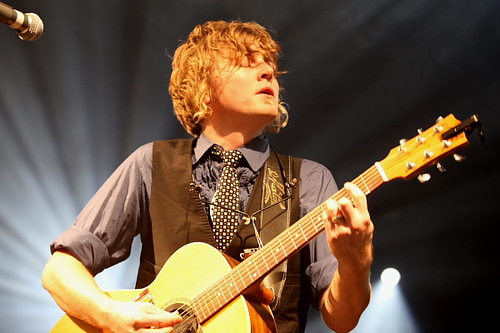 Kevin Mitchell playing under his stage name, Bob Evans